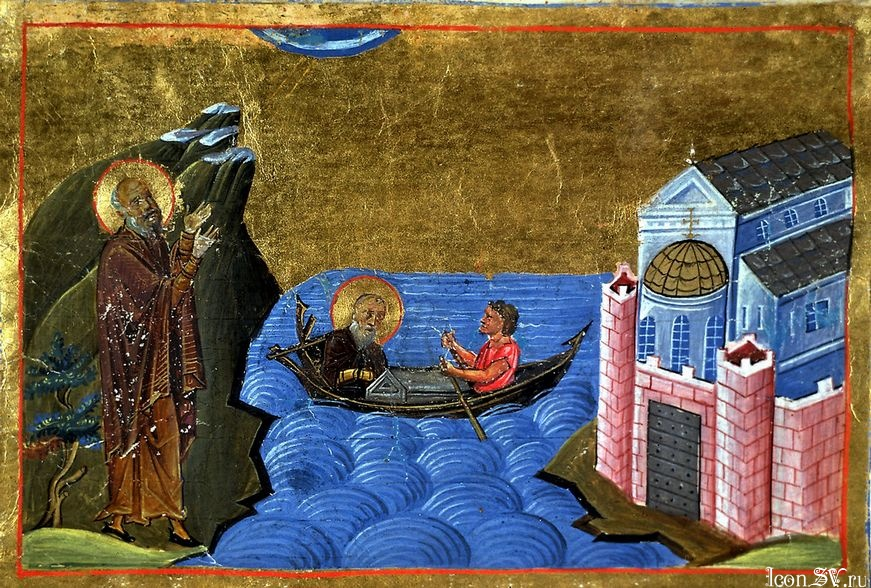 11th-century Byzantine miniature representing Studion Monastery. Menologion of Basil II